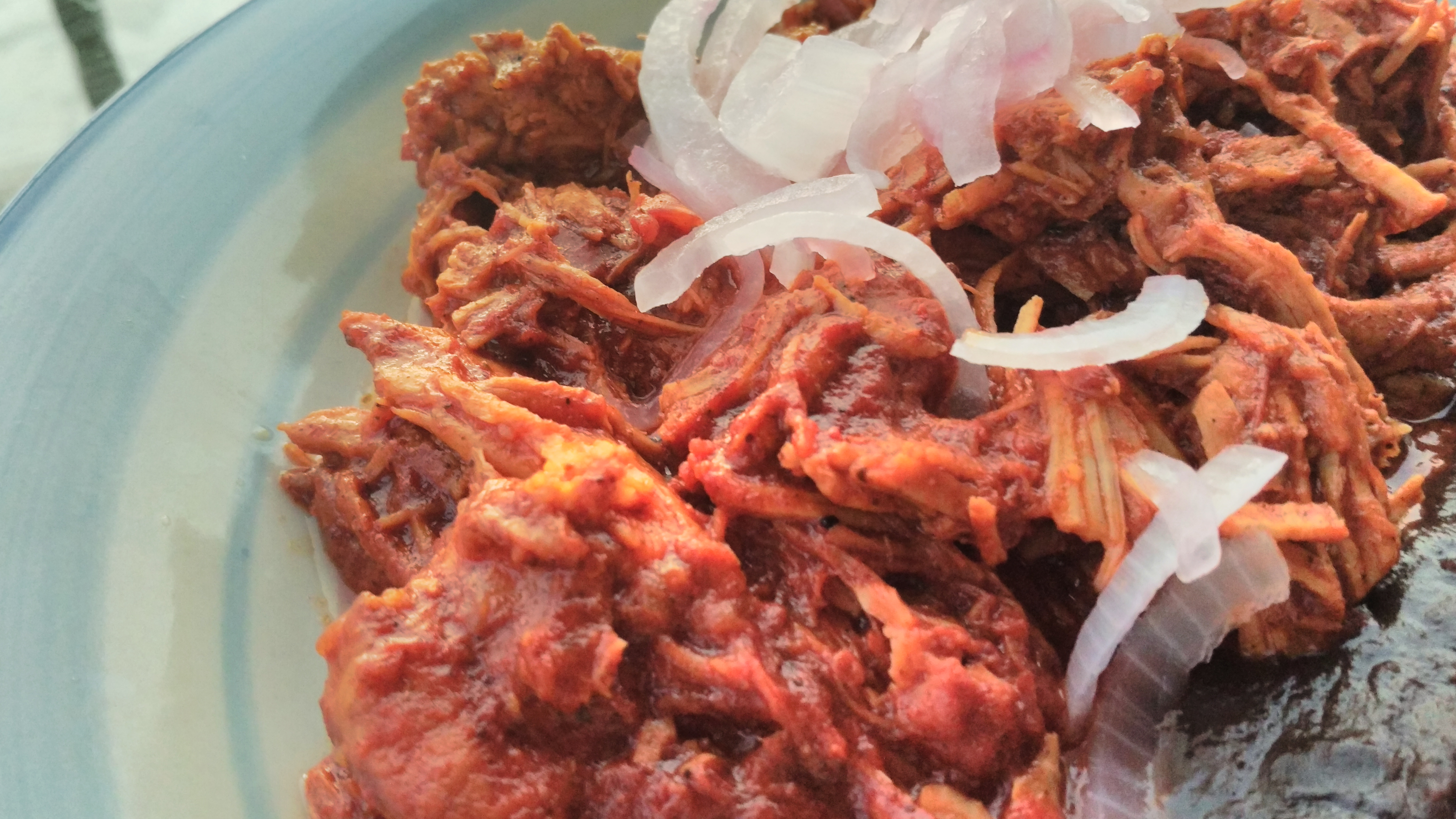 a healthy serving of cochinita pibil, a traditional Yucatán dish.